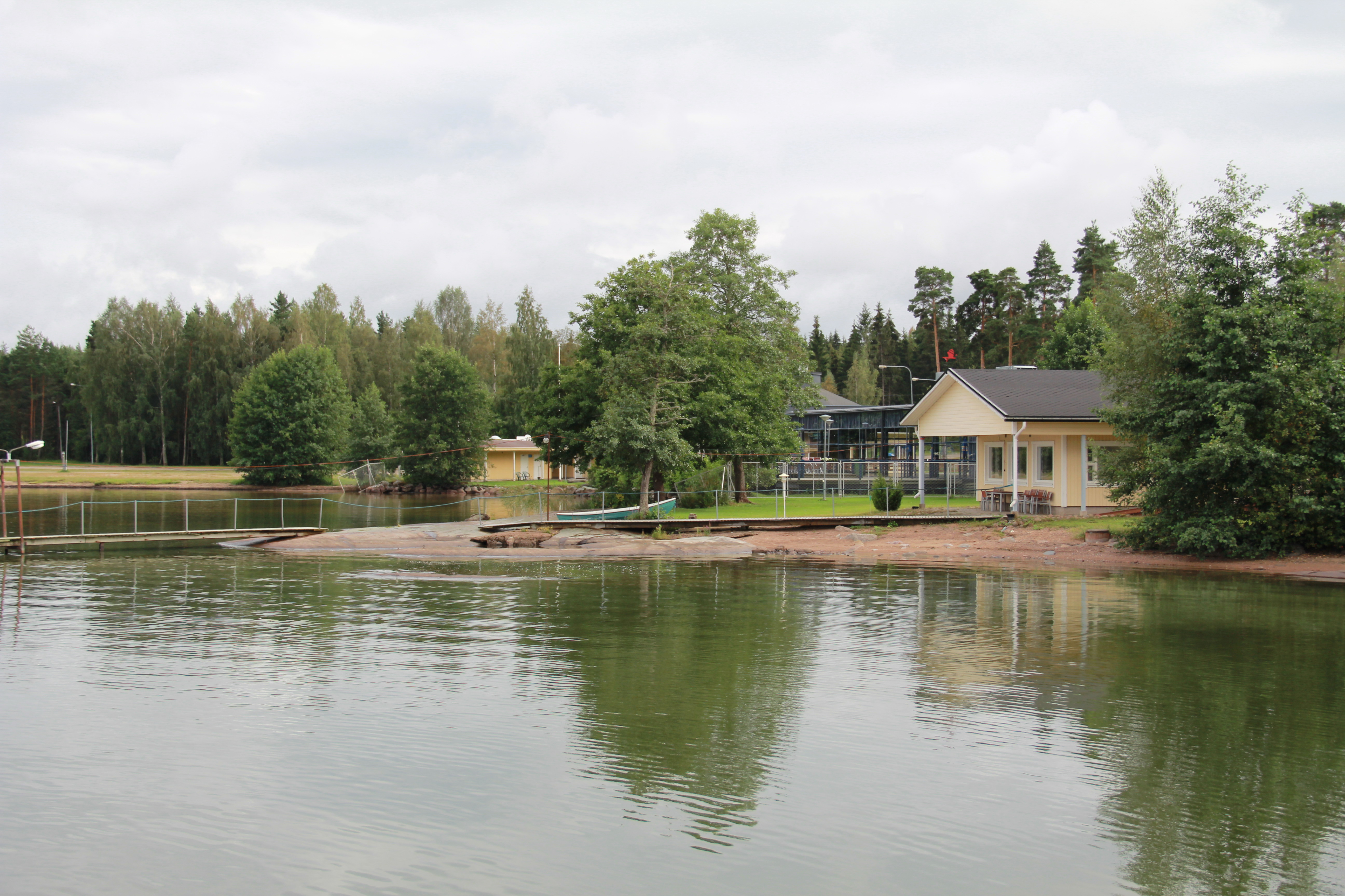 Valasranta dance hall, Yläne, Finland. Seen from the Lake Pyhäjärvi in Satakunta.